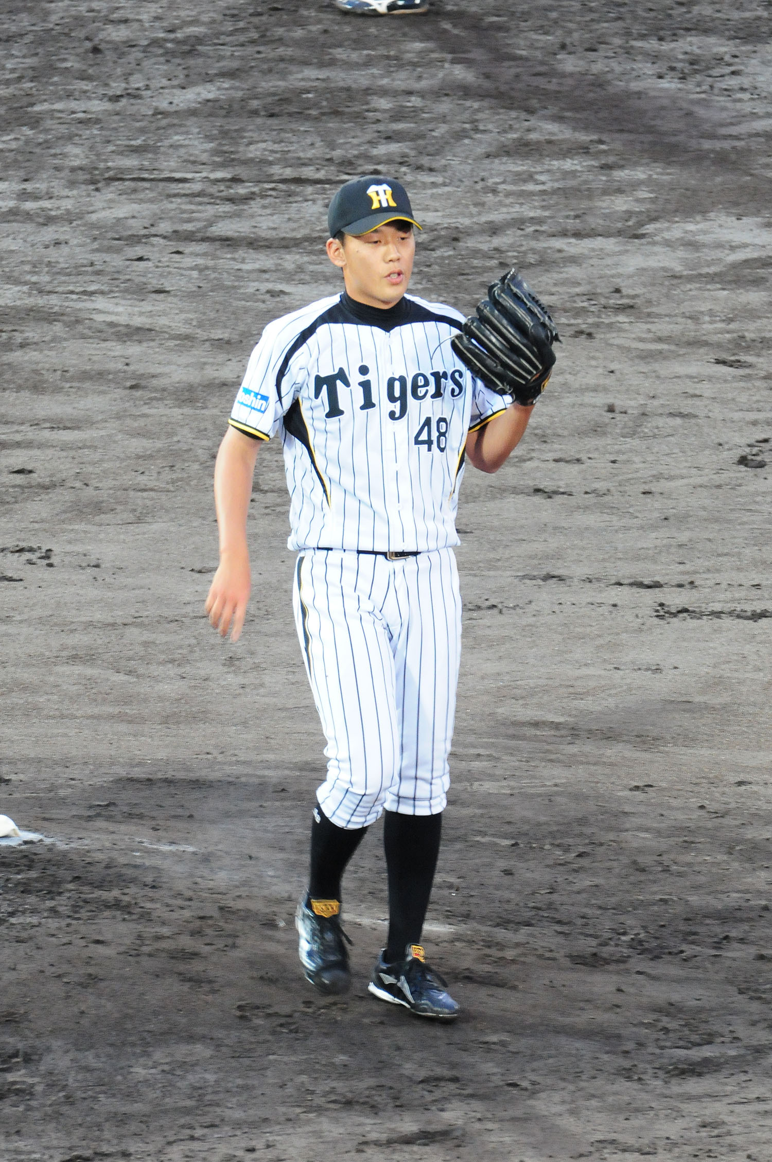 Kazuyuki Kaneda, pitcher of the Hanshin Tigers, at Akita Prefectural Baseball Stadium.